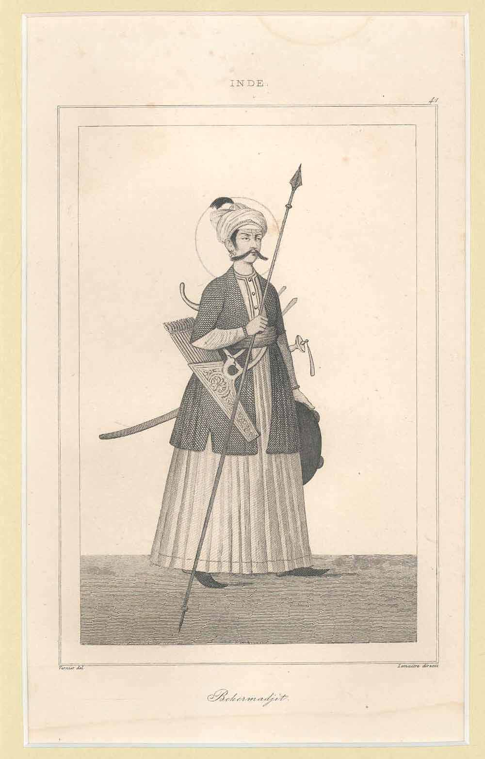 Views of India from an atlas by the geographer Thunot Duvotenay (1796-1875), published in Paris, 1843